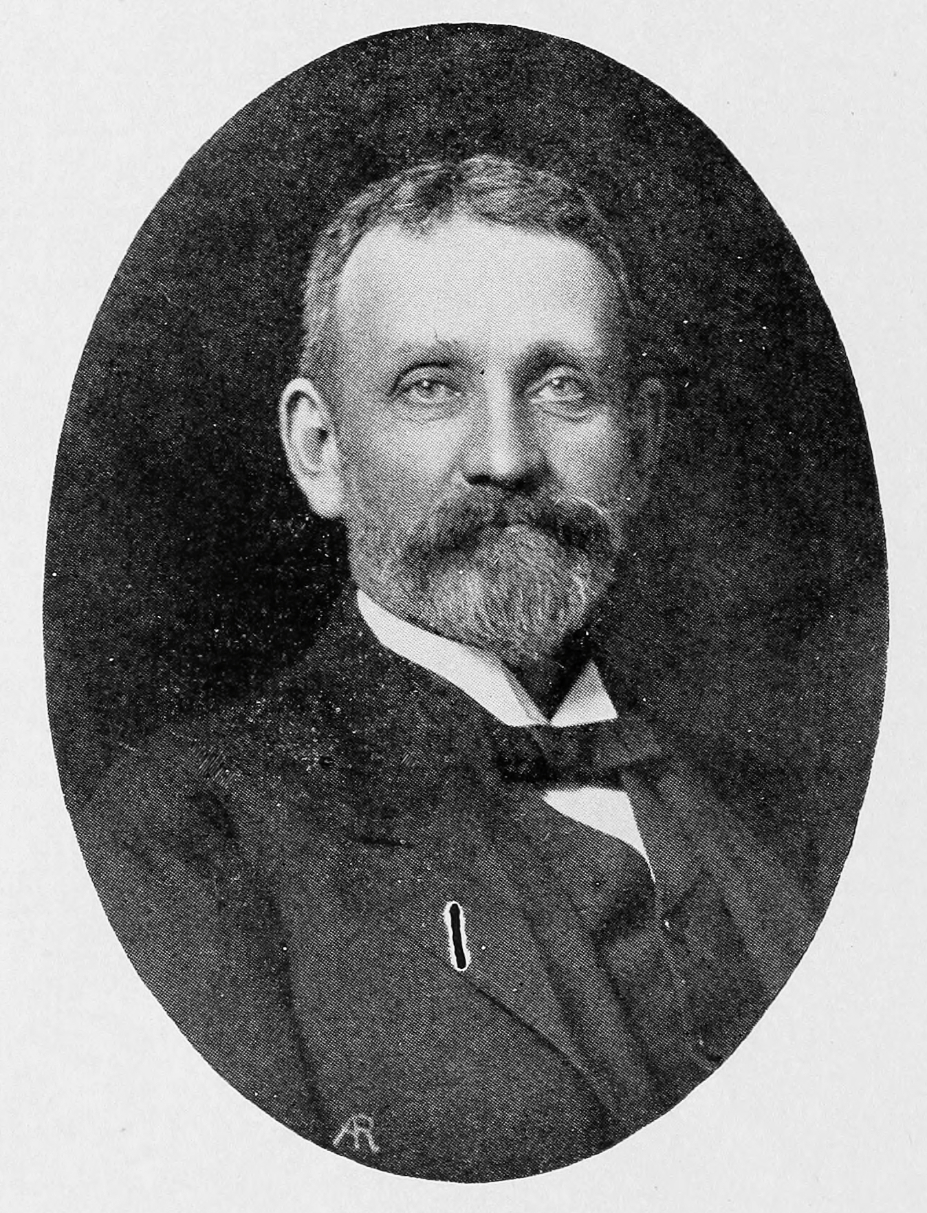 Oren Root (1838–1907) Presbyterian minister and professor of Mathematics, Mineralogy and Geology at Hamilton College